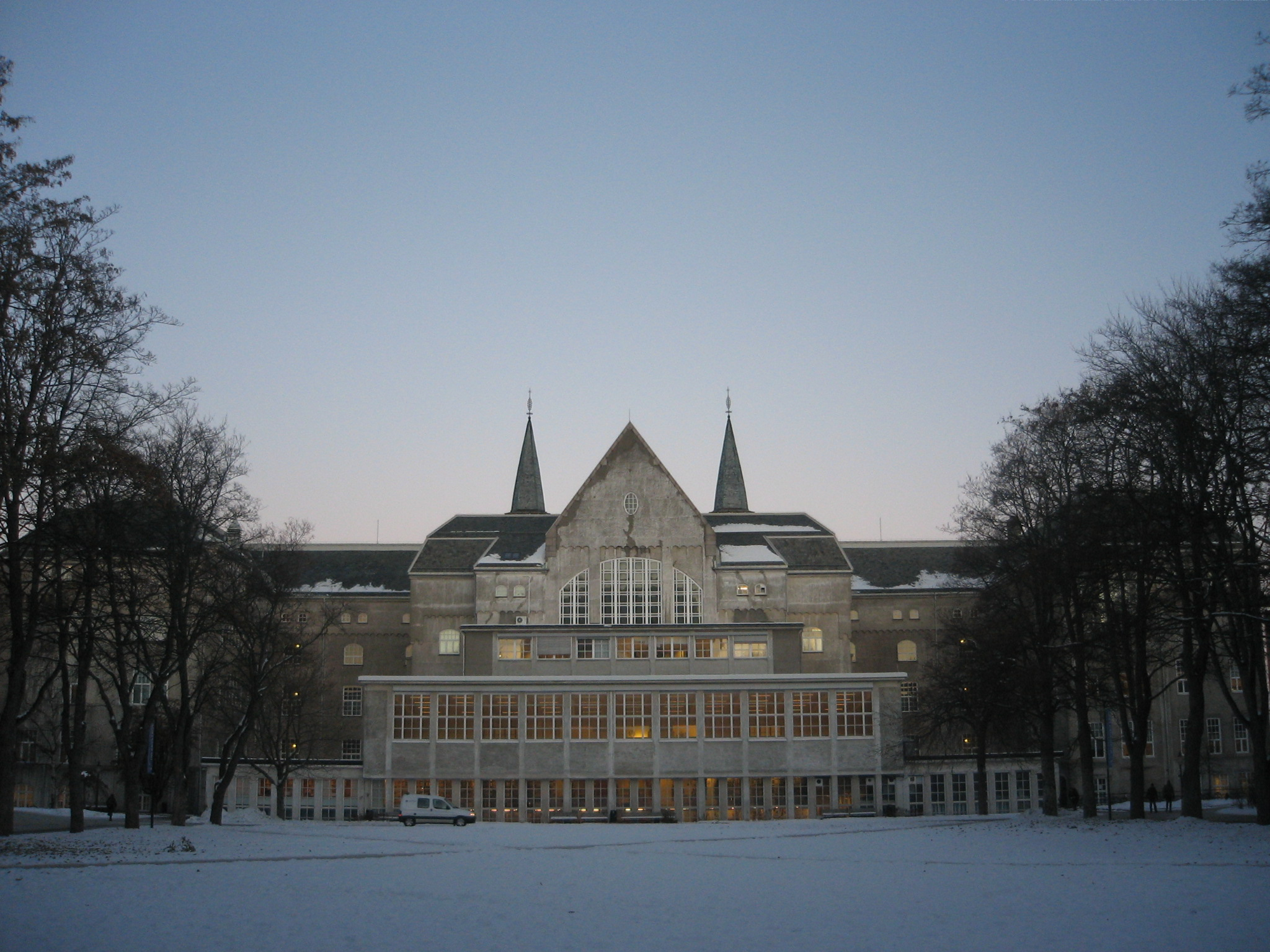 South facade of Hovedbygningen (=the main building) at Campus NTNU Gløshaugen, Trondheim. Architect: Bredo Greve. The building was originally erected as the main building of NTH (=The Norwegian Institute of Technology) in 1910-1916.